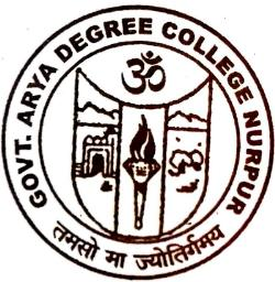 Logo of GADC Nurpur